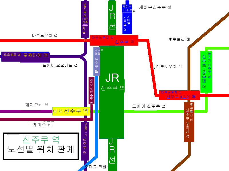 This picture shows where each railway tracks are located at Shinjuku station(It is based on Shinjuku rosen.png).